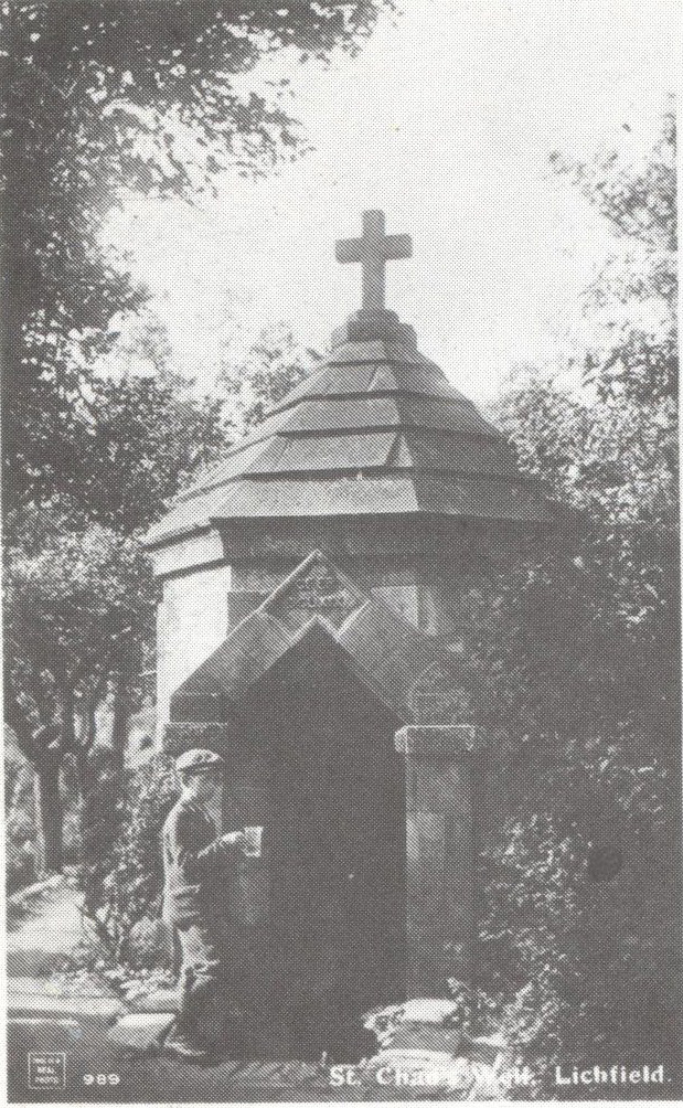 The stone structure built over St Chad's Well, erected by James Rawson, it stood from the 1830's to the 1950's.